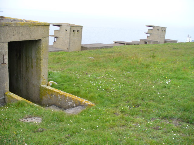 Wartime Relics by Scarf Skerry, Hoxa Head Concrete towers and gun emplacements of the Second World War Balfour Battery sit by the modern lighthouse overlooking one of the southern entries into Scapa Flow.